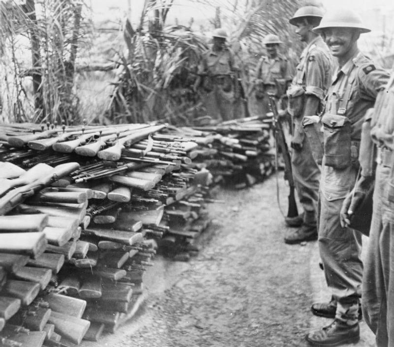 British Reoccupation of Singapore, 1945 Troops of the 5th Indian Division guarding stockpiles of weapons handed in by surrending Japanese forces at Singapore.